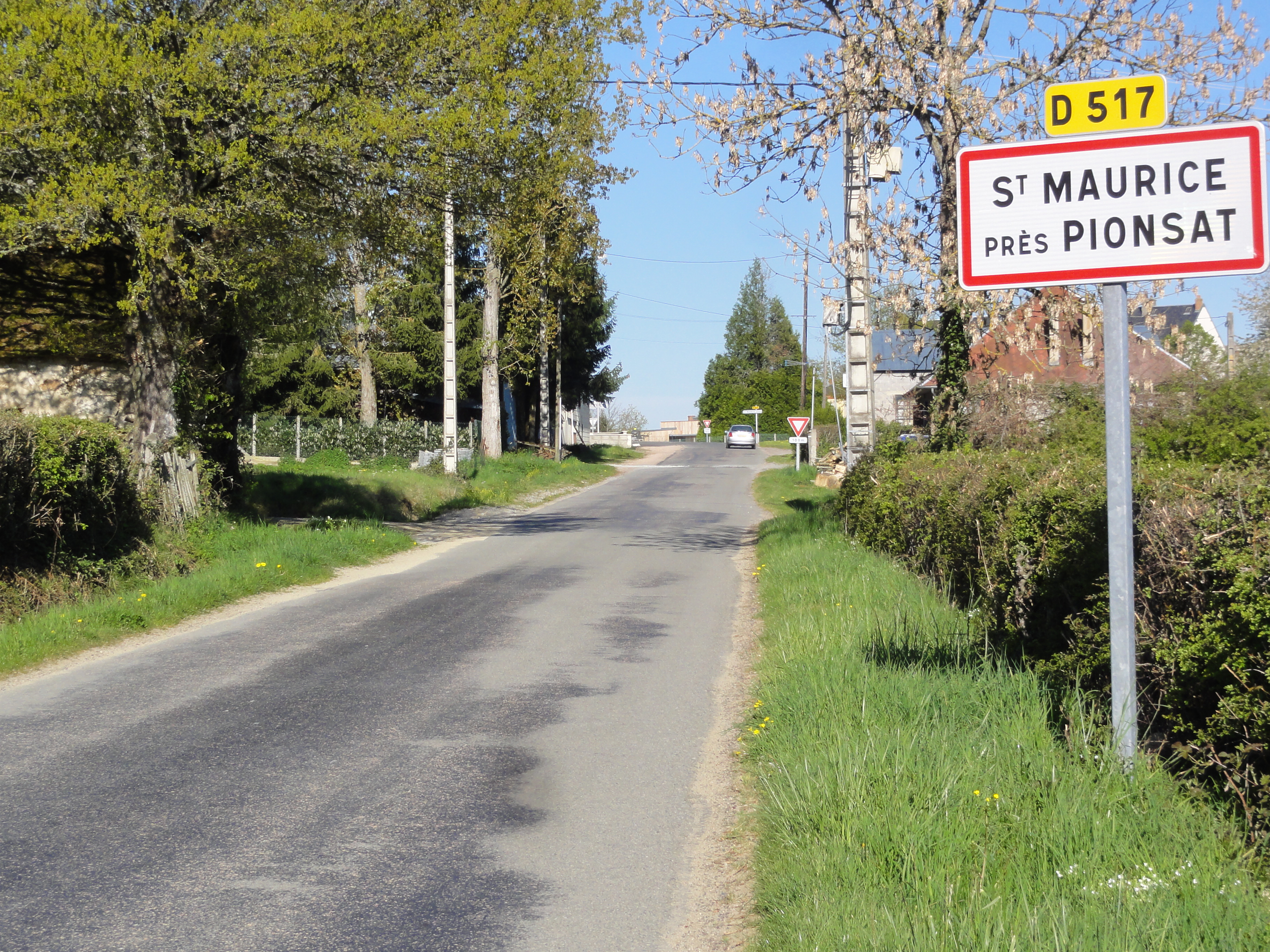 Saint-Maurice-près-Pionsat (Puy-de-Dôme) city limit sign on D517 road coming from the east.